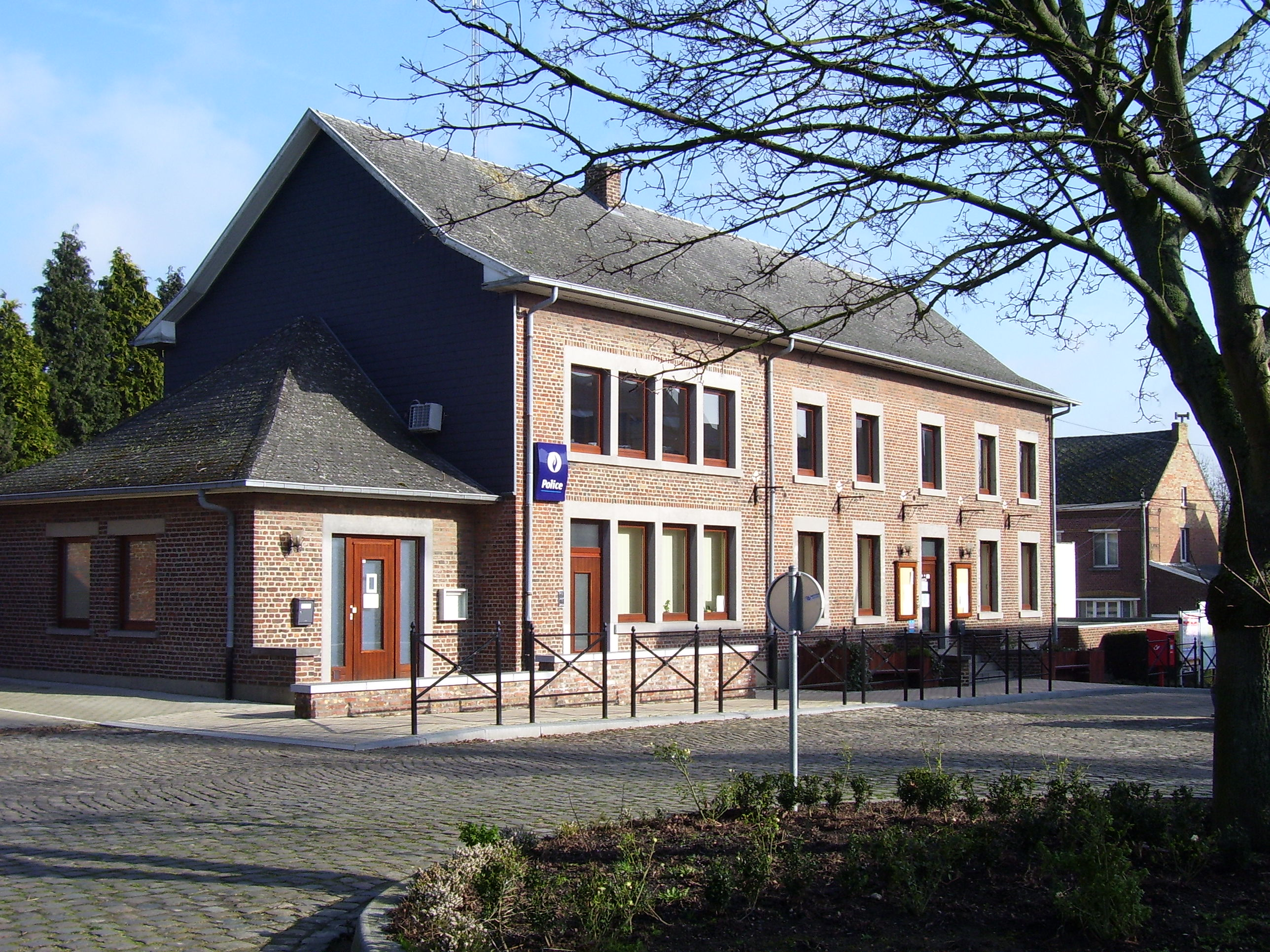 Maison Communale (municipality) of Orp-Jauche, Belgium